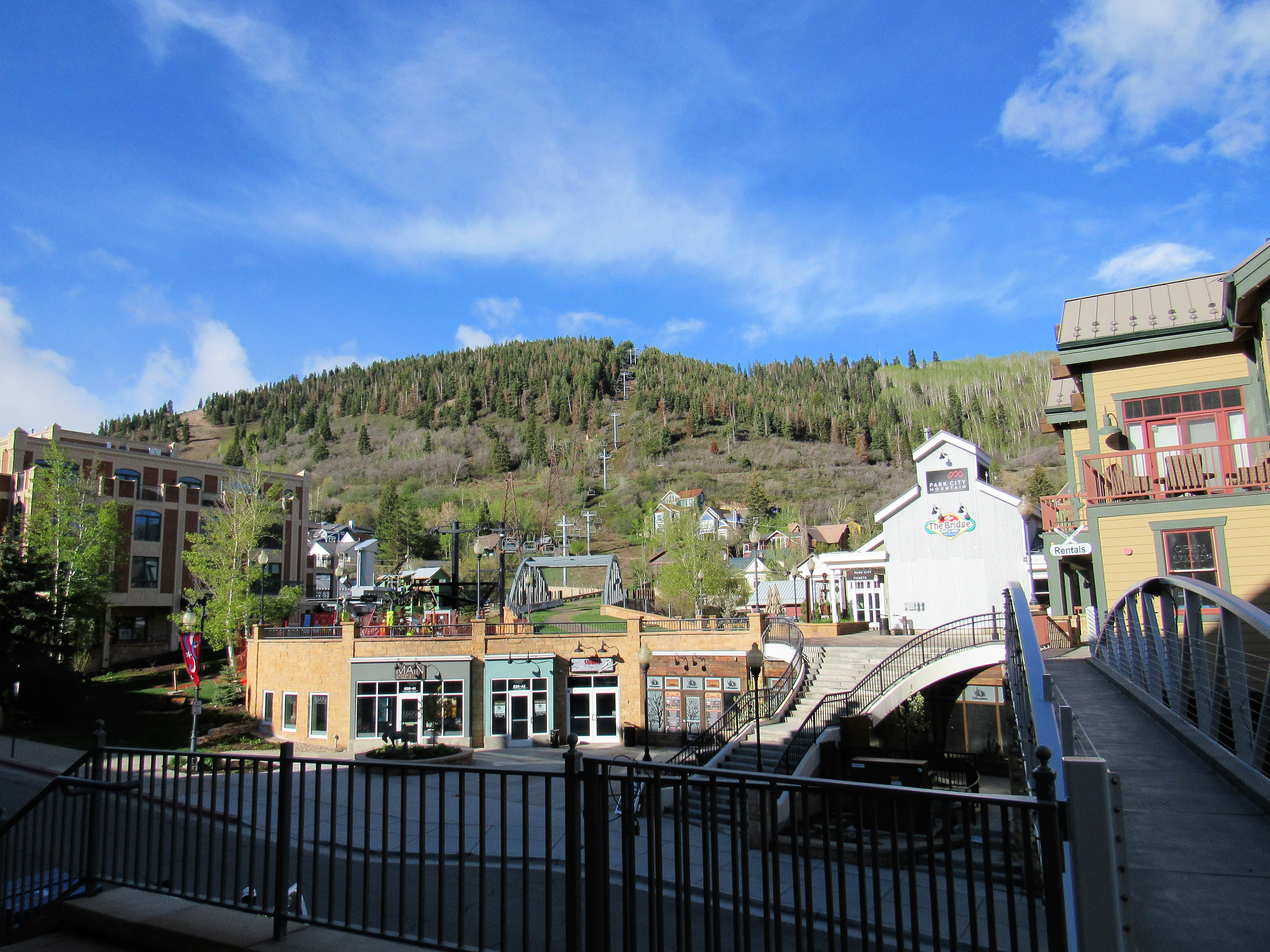 Town Lift in the background in Park City, Utah.